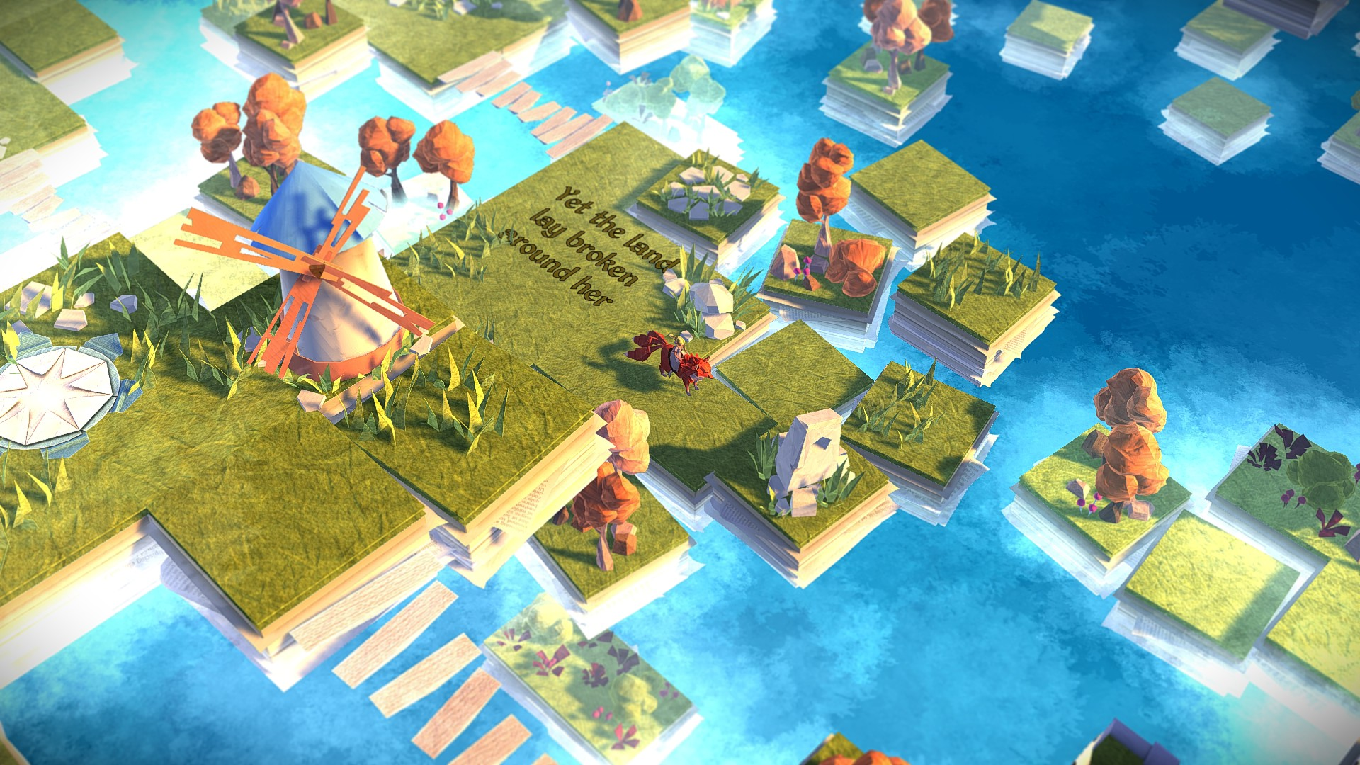 Screenshot of Epistory (video game)